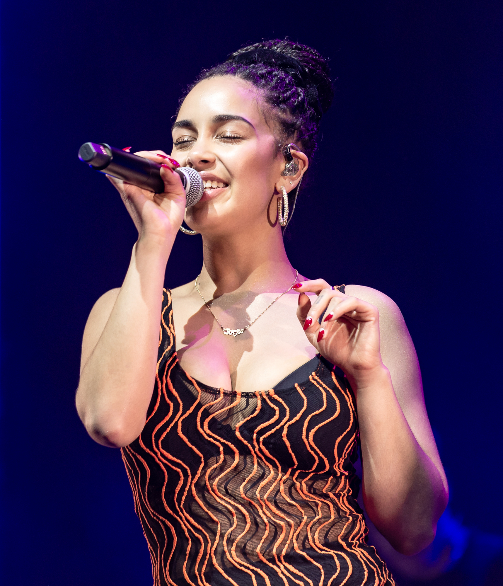 Jorja Smith performing live at The Novo in downtown Los Angeles, California, on Wednesday, April 18, 2018.